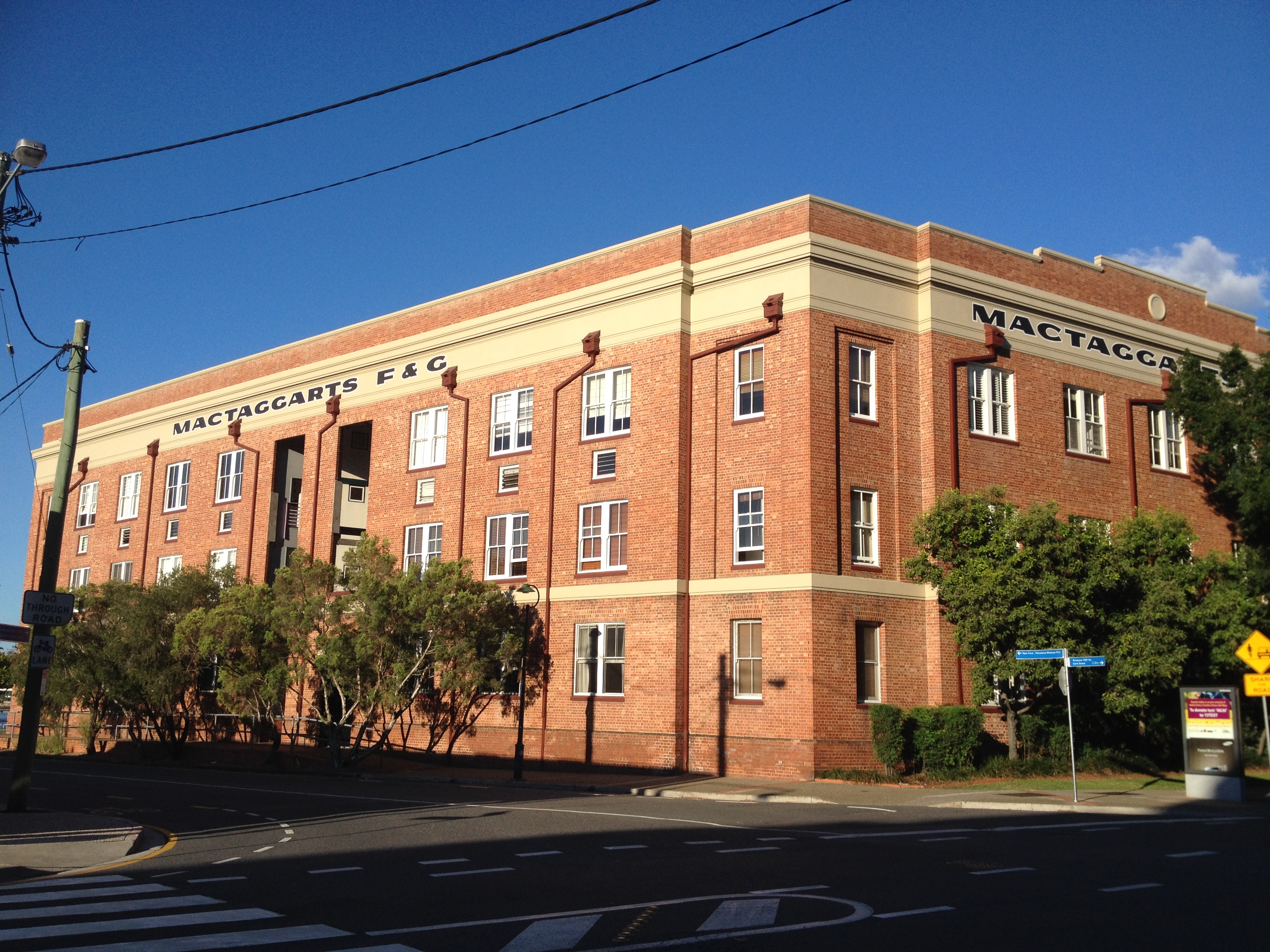 Mactaggarts Cooperative Woolstore at 53 Vernon Tce, Teneriffe, Queensland